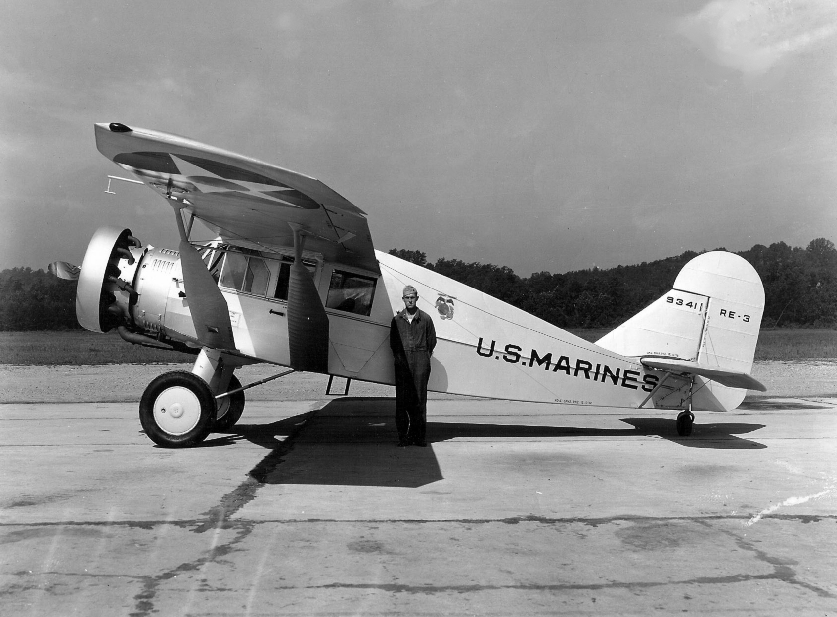 A U.S. Marine Corps Bellanca XRE-3 Skyrocket (BuNo 9341). This aircraft was used as an air ambulance and could carry two stretchers and was acquired in 1932.